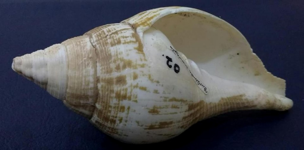 A shell of the marine gastropod mollusk Turbinella laevigata Anton, 1838[1] collected in the northeast coast of Brazil. Underside view.